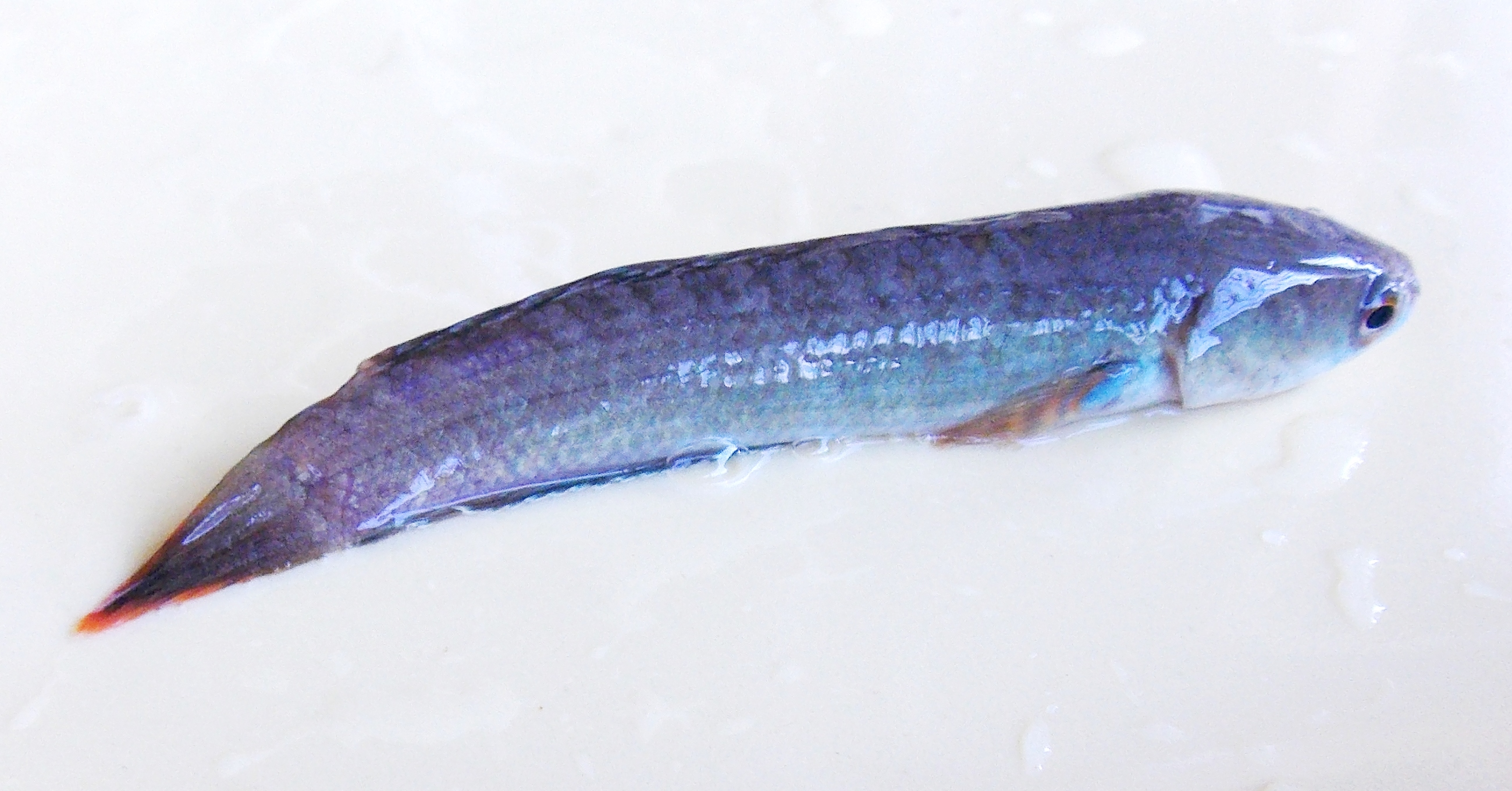 Asiatic snake head fish , Assam. local name changeali mass, scientific name,Channa orientalis